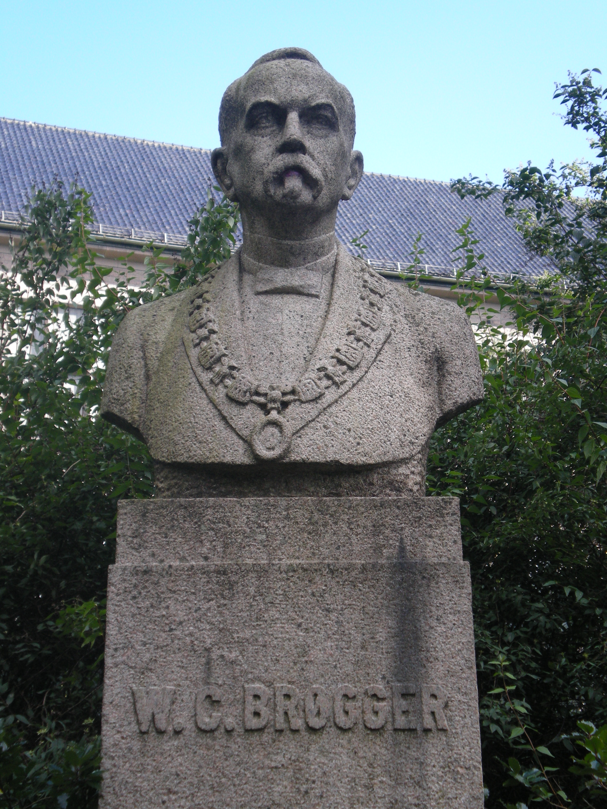 Bust of Norwegian professor W. C. Brøgger in the Botanical Garden in Oslo.